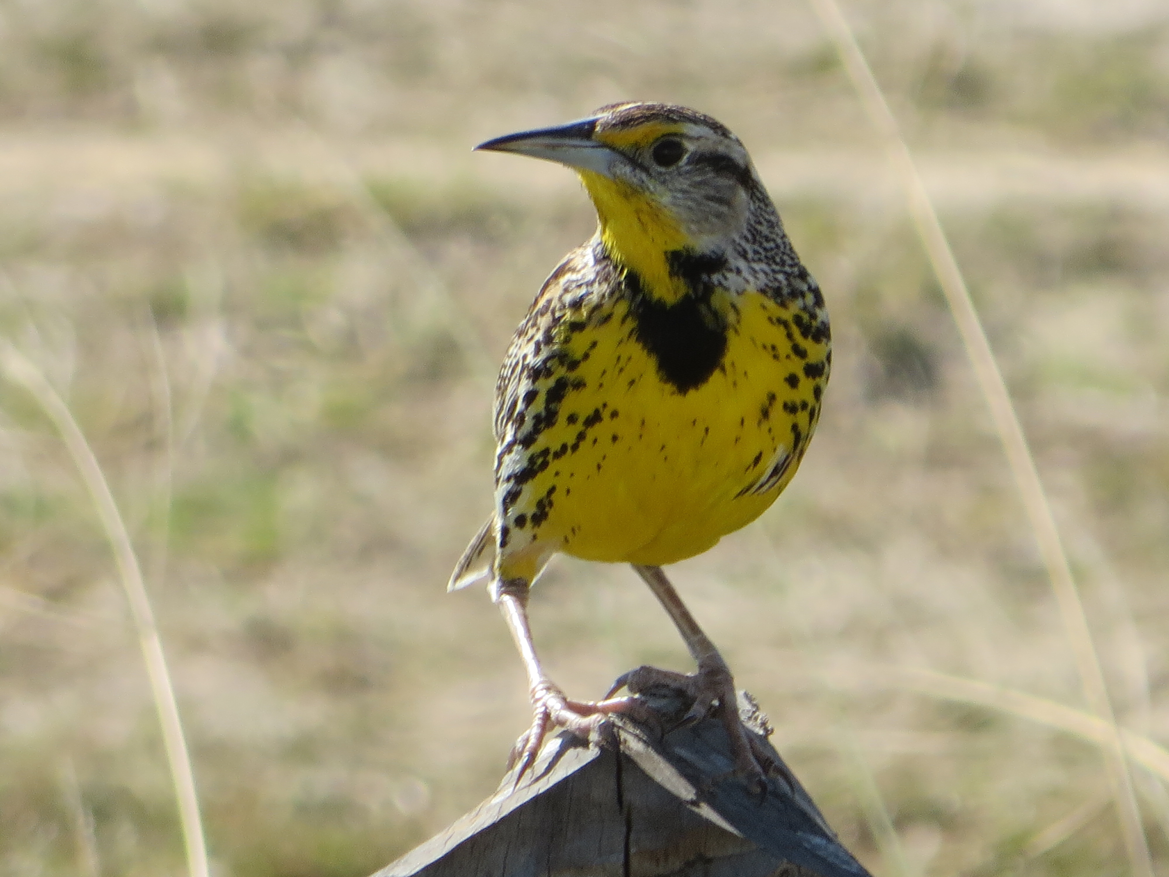 Eastern Meadowlark of the subspecies S. m. hippocrepis (Wagler, 1832) near Moron, Cuba